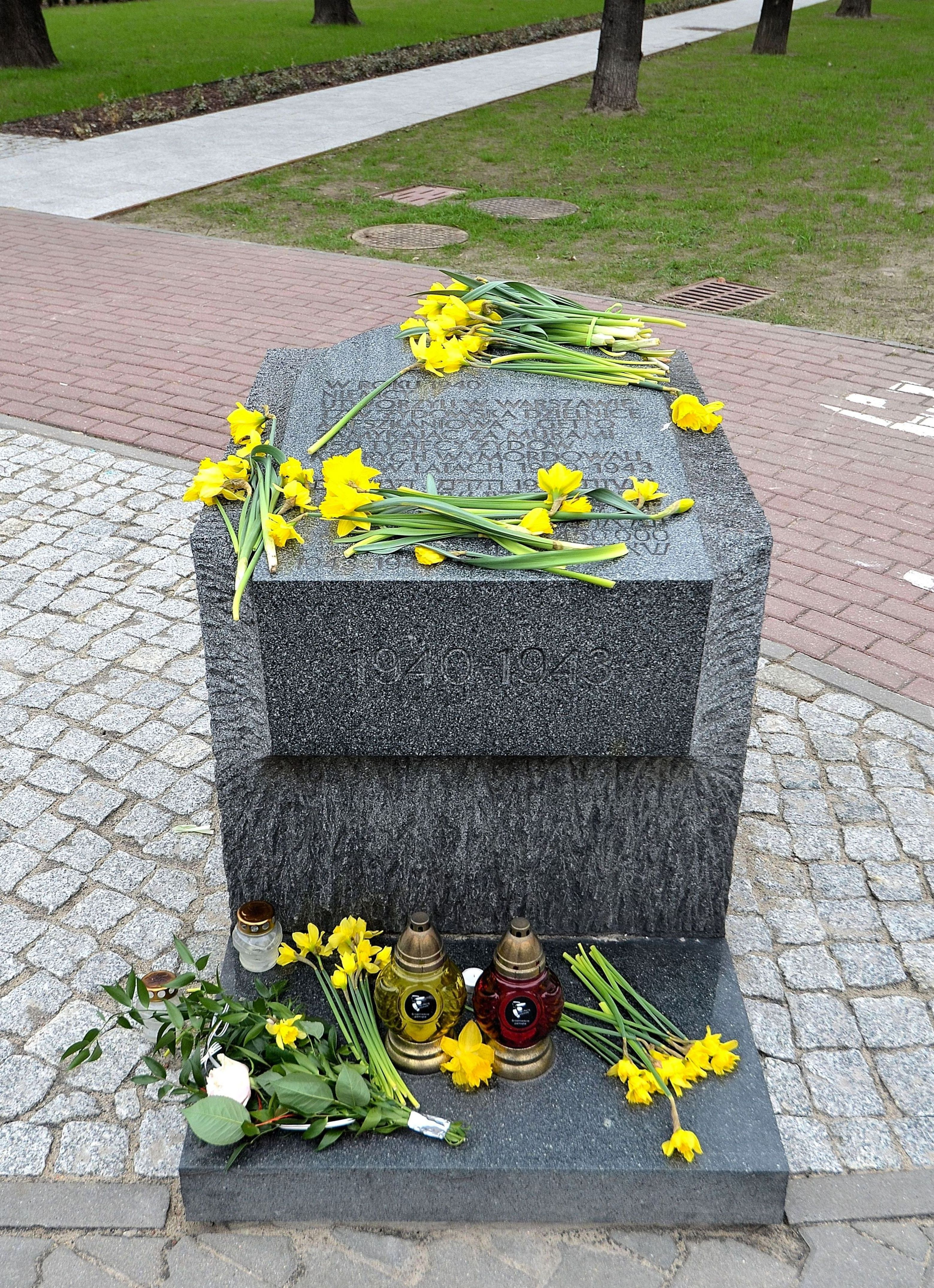 A block of the Memorial Route of Jewish Martyrdom and Struggle in Zamenhofa corner of Anielewicza Street in Warsaw